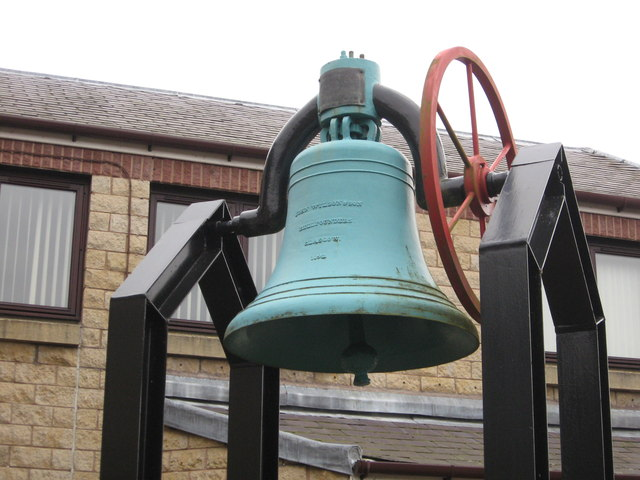 The Drumclog Bell